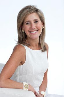 CEO of Spanx